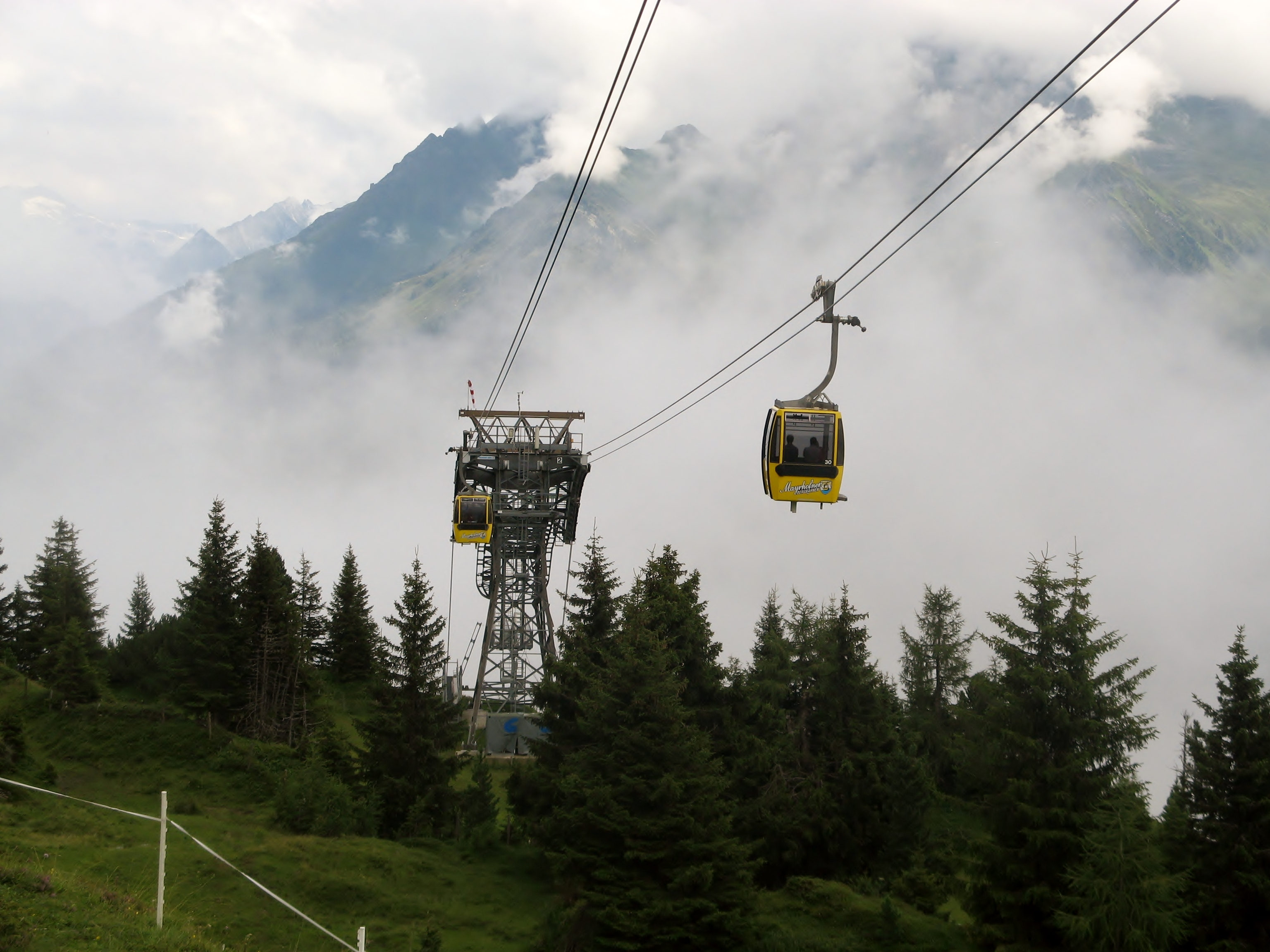 Mayrhofner Penkenbahn